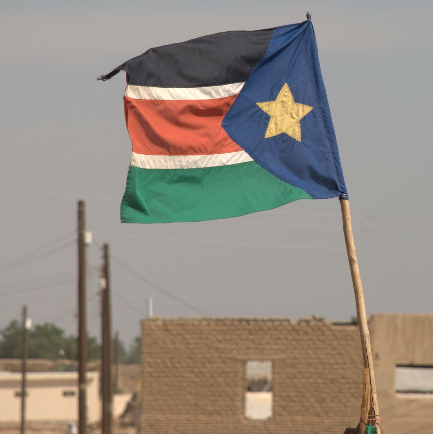 Flag of Sudan People's Liberation Movement near Karima, North Sudan